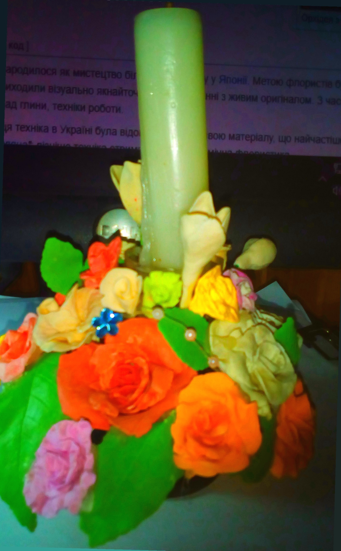 Decorating candlesticks with artificial flowers with cold porcelain technique